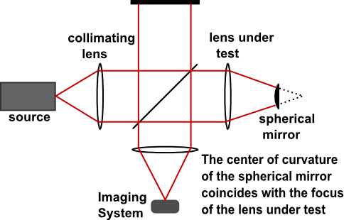 This illustrates how a Twyman-Green interferometer may be used to test the figure of a converging lens. Other information I was getting really frustrated with an obvious bug that Wikipedia's SVG rendering engine has in dealing with proportional text spacing. So I exported my SVG image "File:Twyman-Green Interferometer.svg" to PNG.